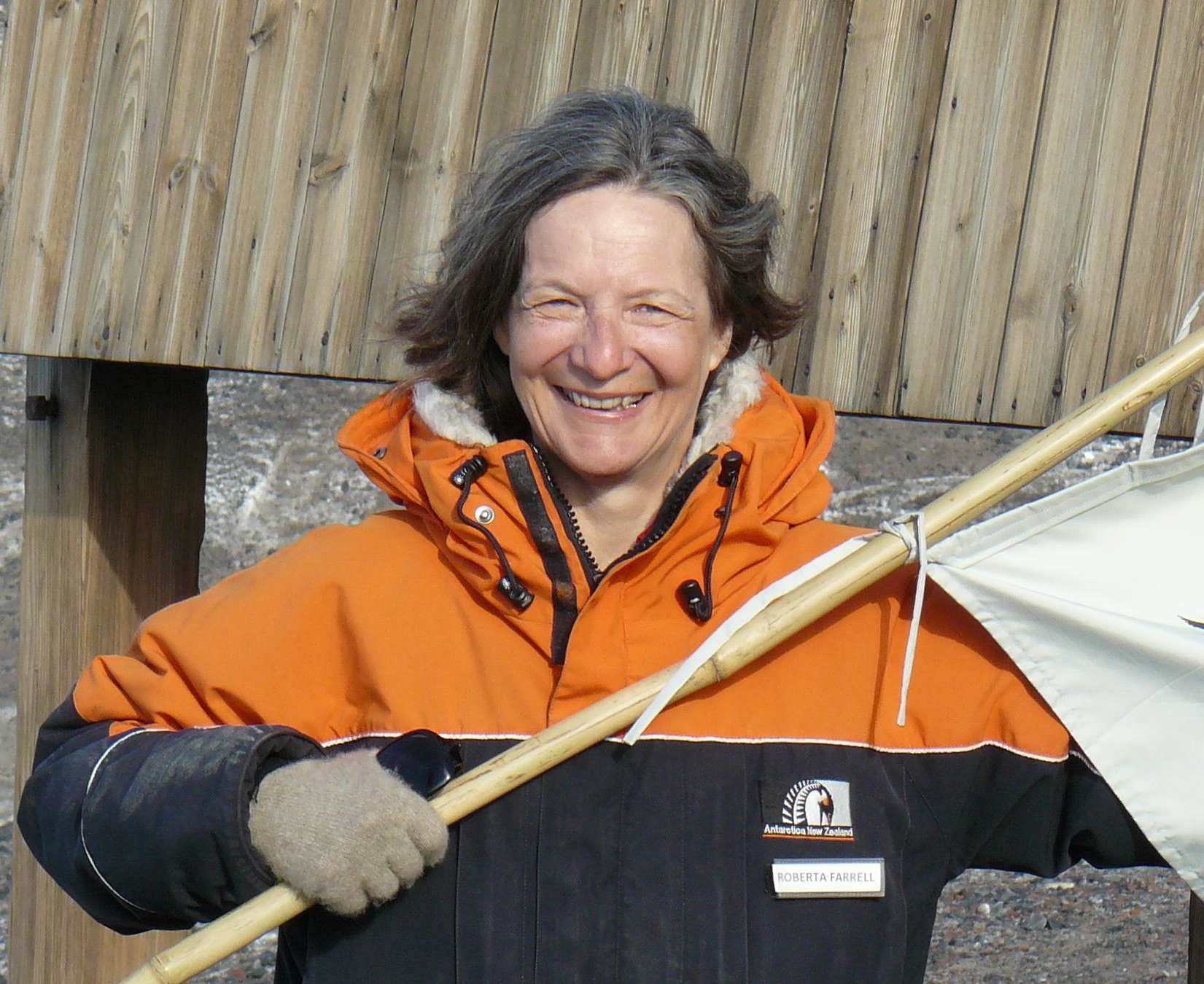 Roberta Farrell, Event Leader of Antarctica New Zealand K021